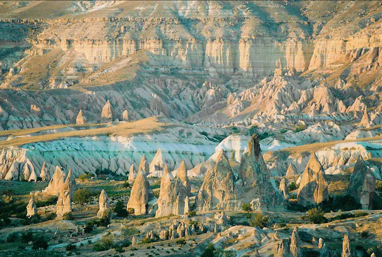 Rock formations in Goreme Valley, within Göreme National Park, Cappdocia, Turkey. in 2001